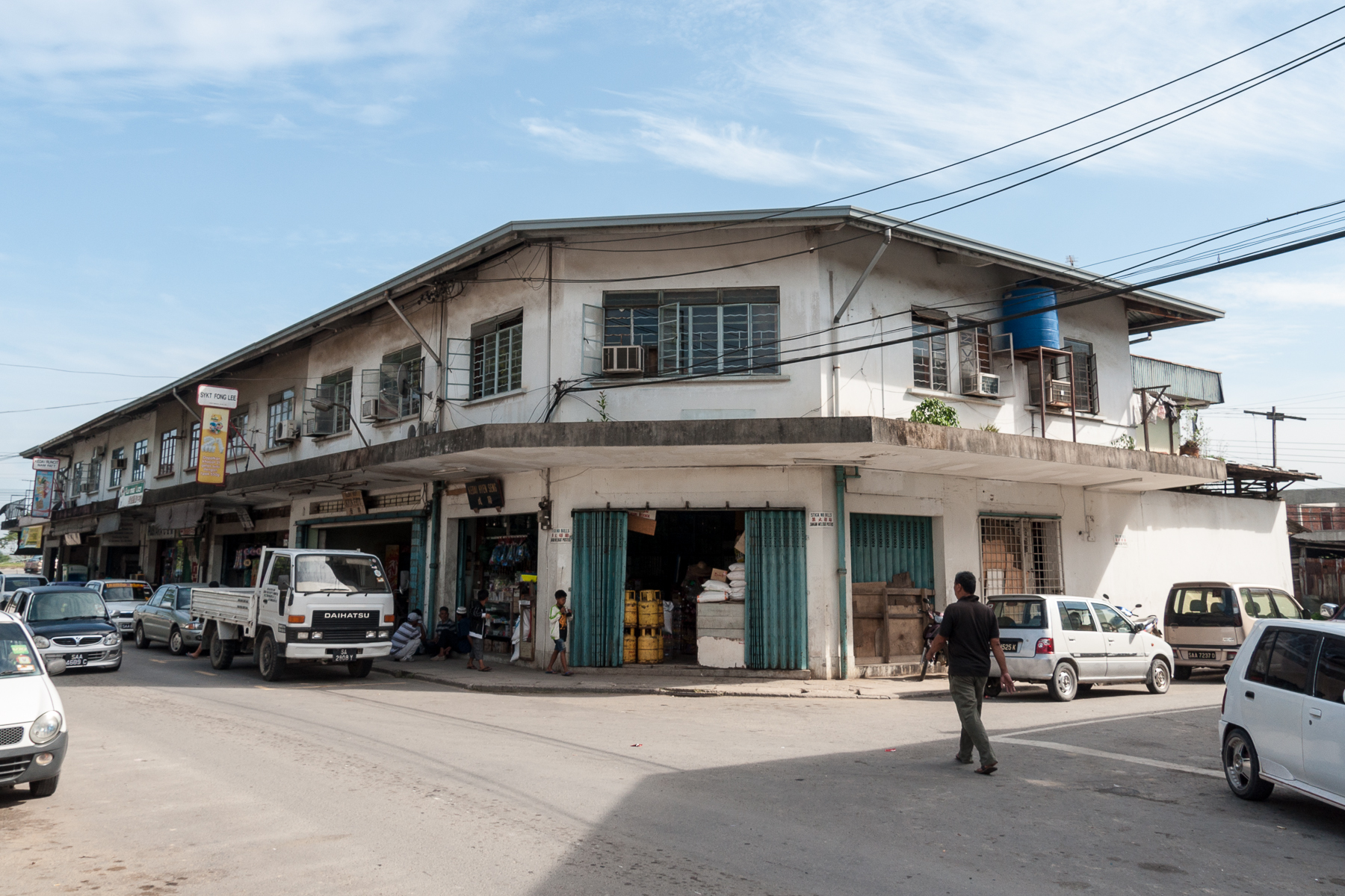 Telipok, Sabah: Old Shophouse)